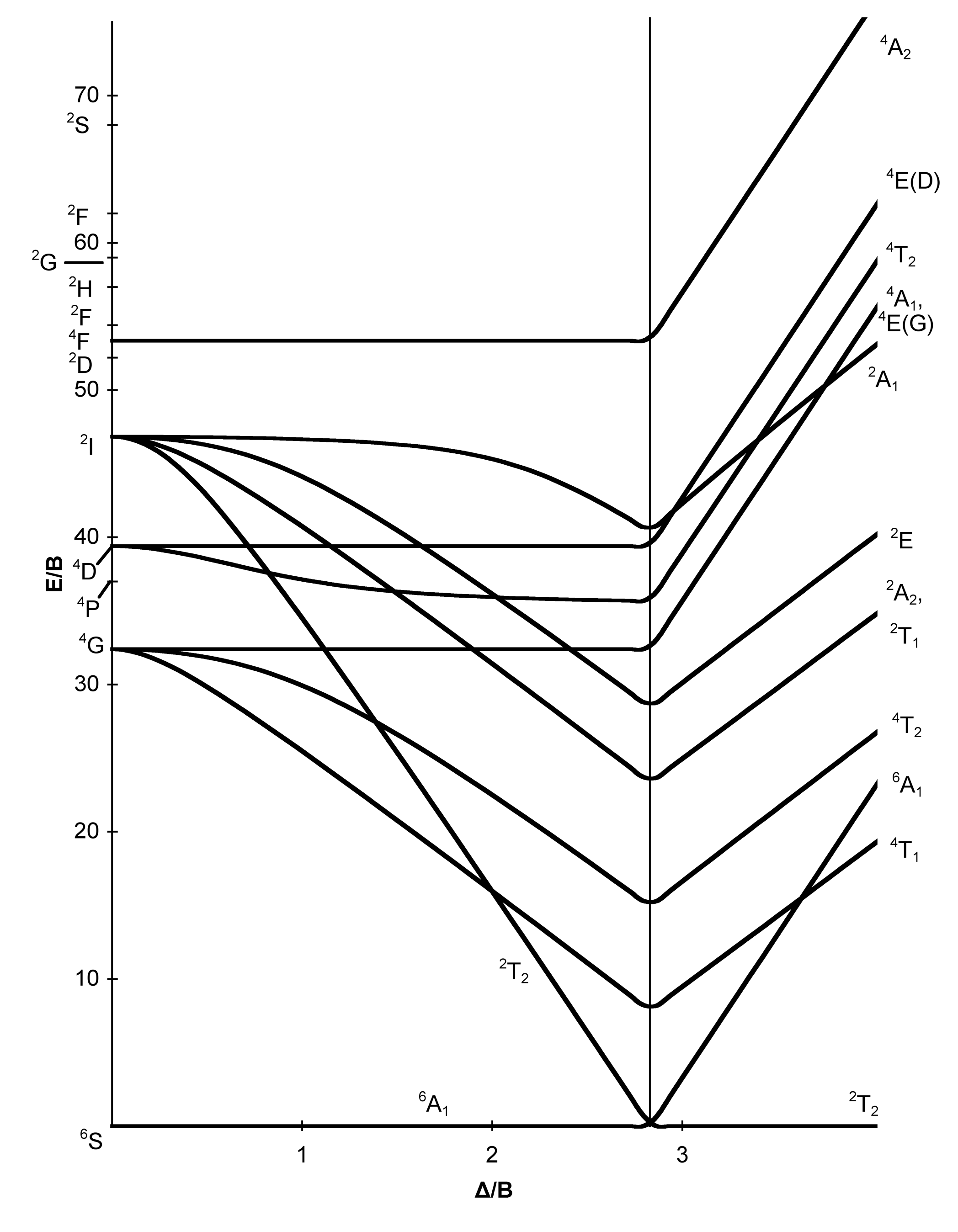 A partial Tanabe-Sugano diagram for the octahedral d5 electron configuration.